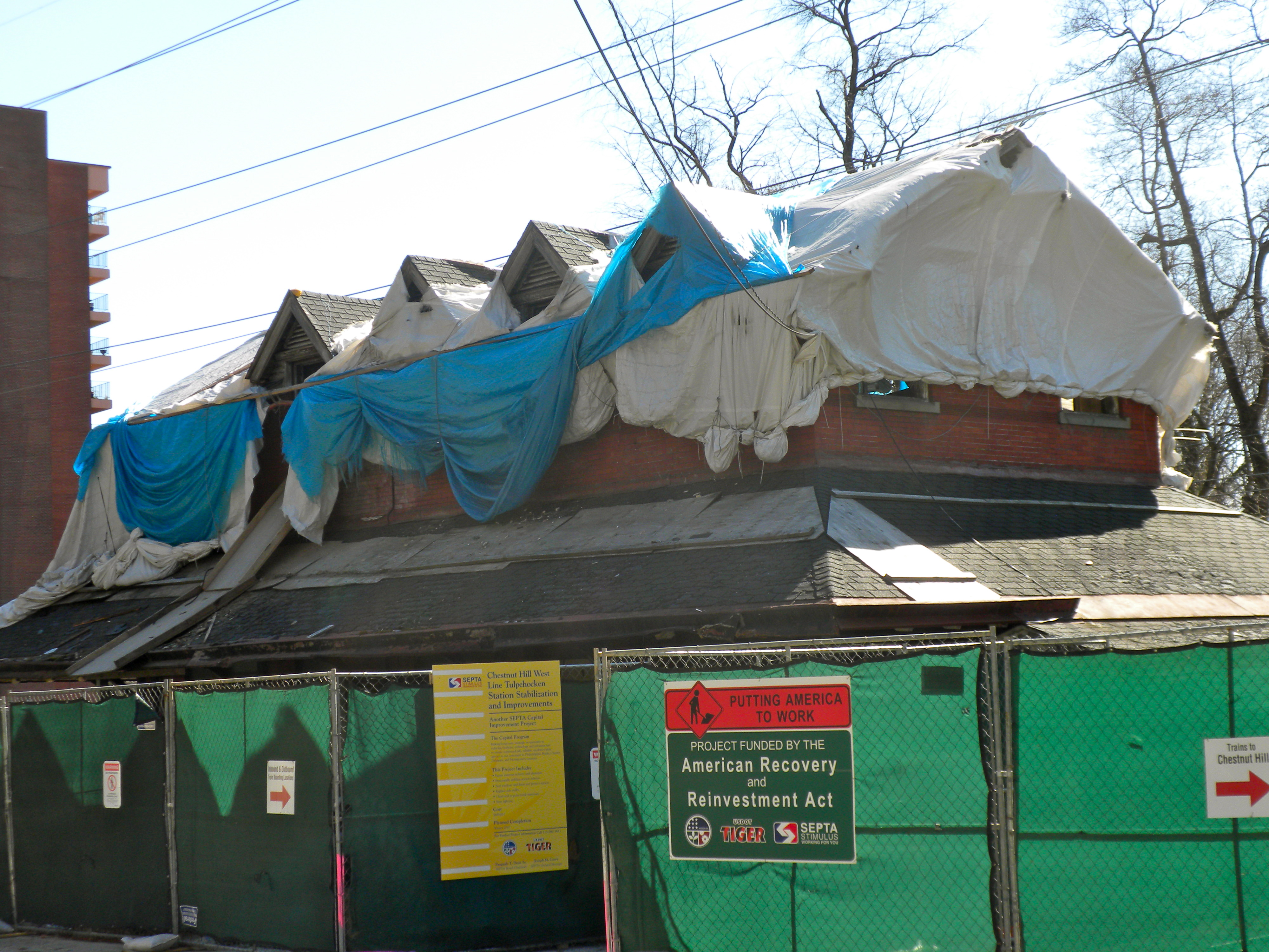 Tulpehocken Station (Septa) in Germantown area of Philadelphia. This is a contributing structure in the Tulpehocken Station Historic District on the NRHP since 1985. Station built 1878. Actually the neighboring houses in the HD are fantastic Victorian style. The station itself was never huge or impressive, but was well known and "cute." It's undergoing renovation, as noted in the Wikipedia article, which this photo illustrates.